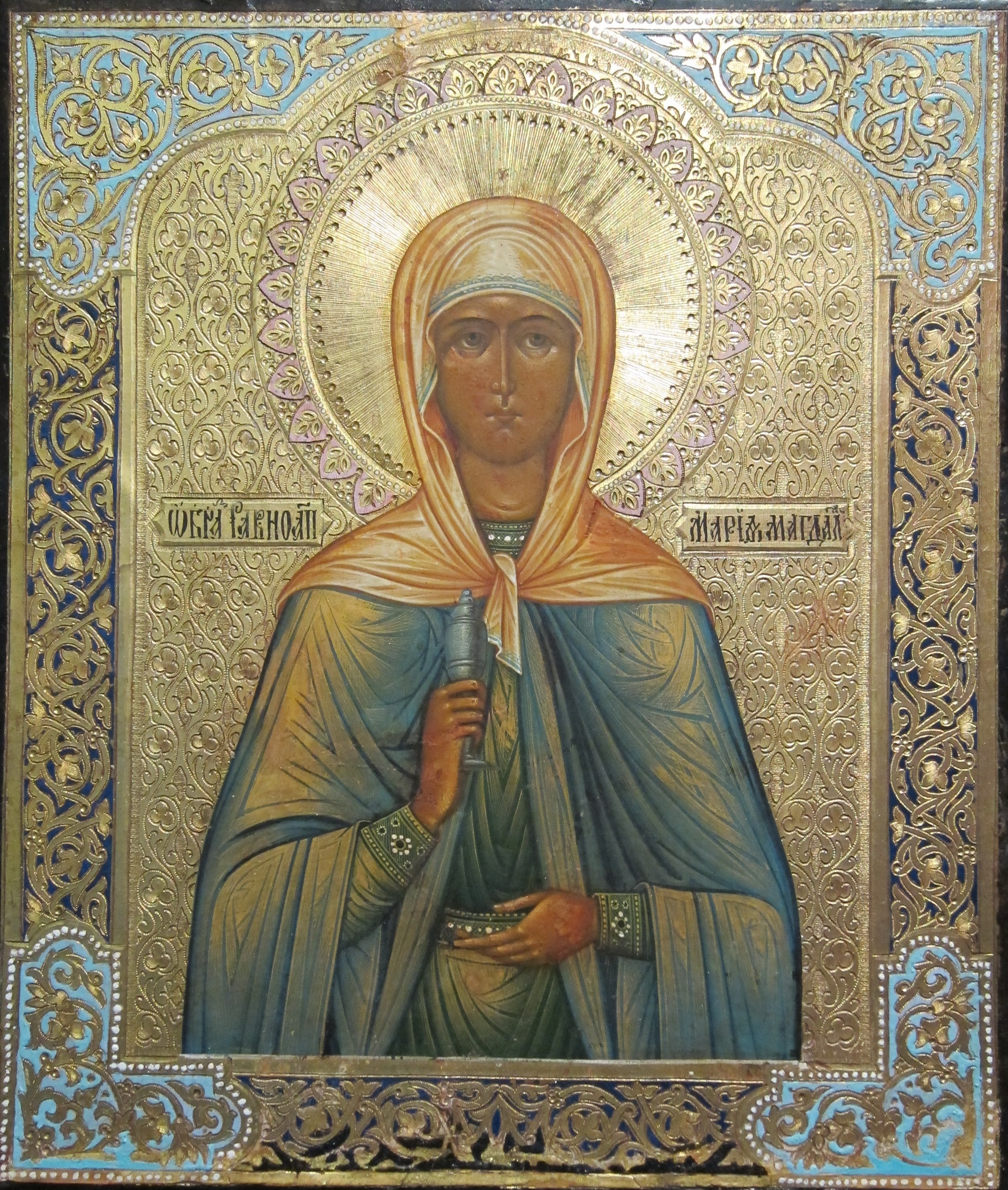 "Mary Magdalene" circa 1890 (Museum of Russian Icons)